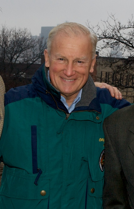 Toledo mayor Carty Finkbeiner at a groundbreaking ceremony at SFC Graphics in the city's downdown